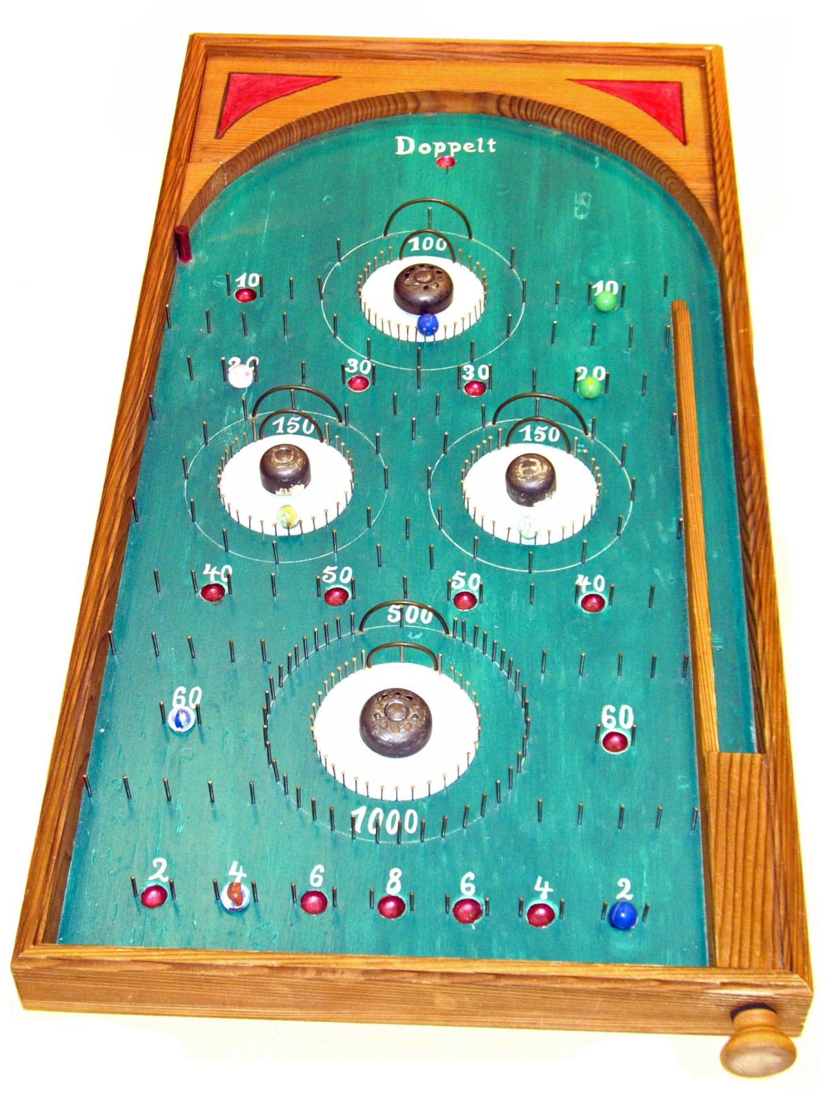 Reconstruction of a Tivoli gambling game, exposed at the castle of Neuenbürg, Germany